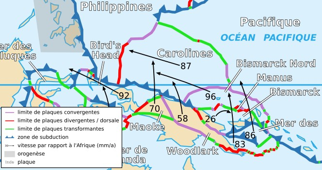 Map of the Caroline Plate